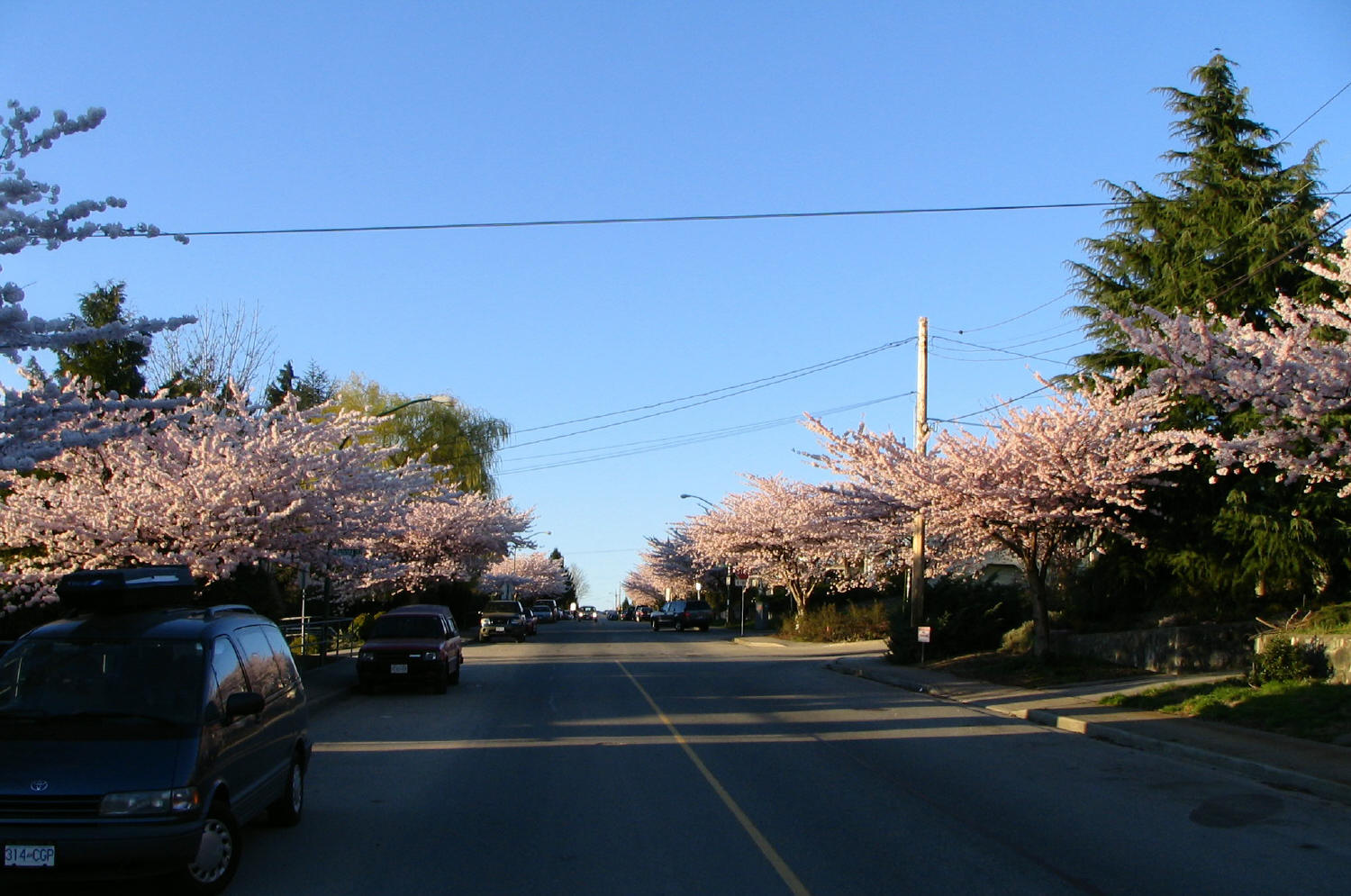 This image was created by me, Flying Penguin of Pacific Spirit Photography ( of Burnaby, BC, Canada